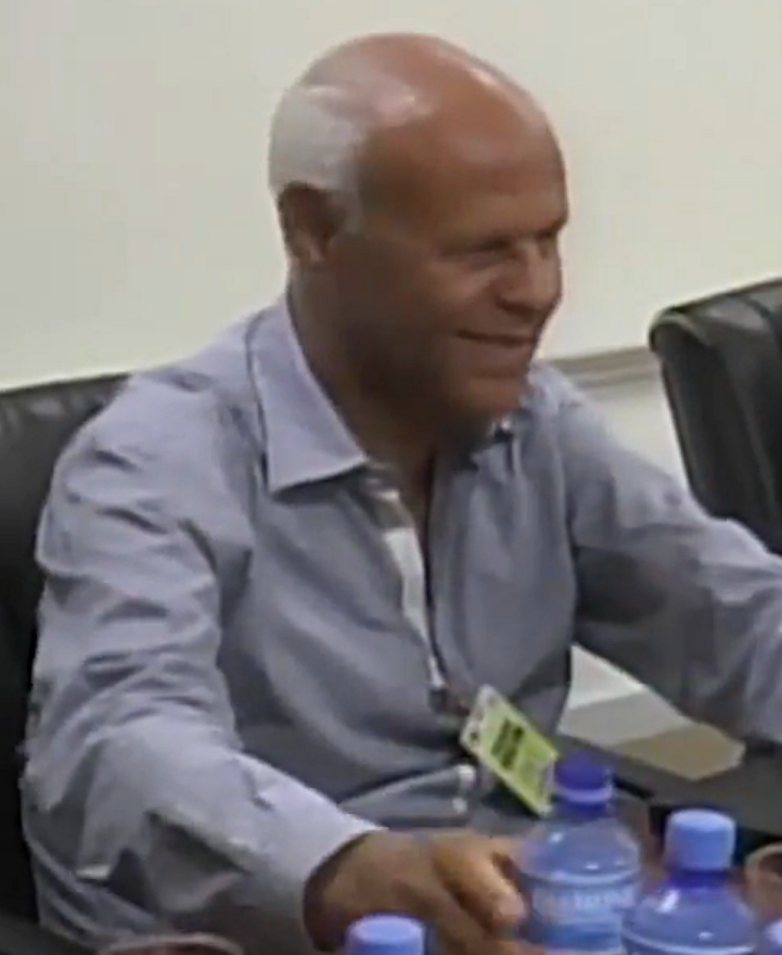 Winston Caldeira, former Finance Minister of Suriname (1983-1984)